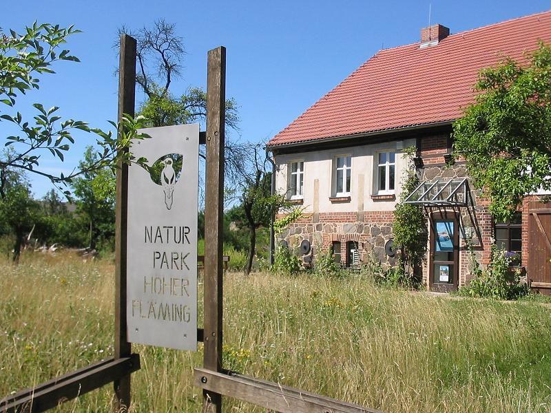 Natural preserve center „Alte Brennerei“ (german for „old distillery“) in the Naturpark Hoher Fläming in Raben. The village Raben is a part of the municipality Rabenstein/Fläming in the district Potsdam Mittelmark, state Brandenburg, Germany.